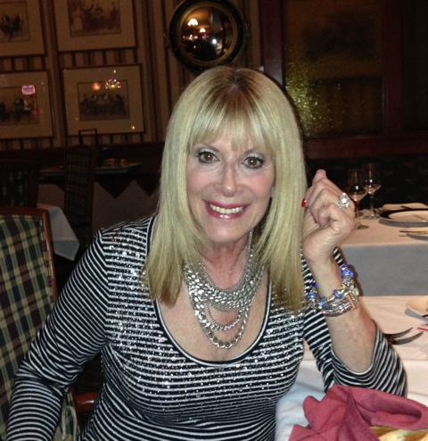 2014 photo of Linda November, taken by Robert G. Dwyer